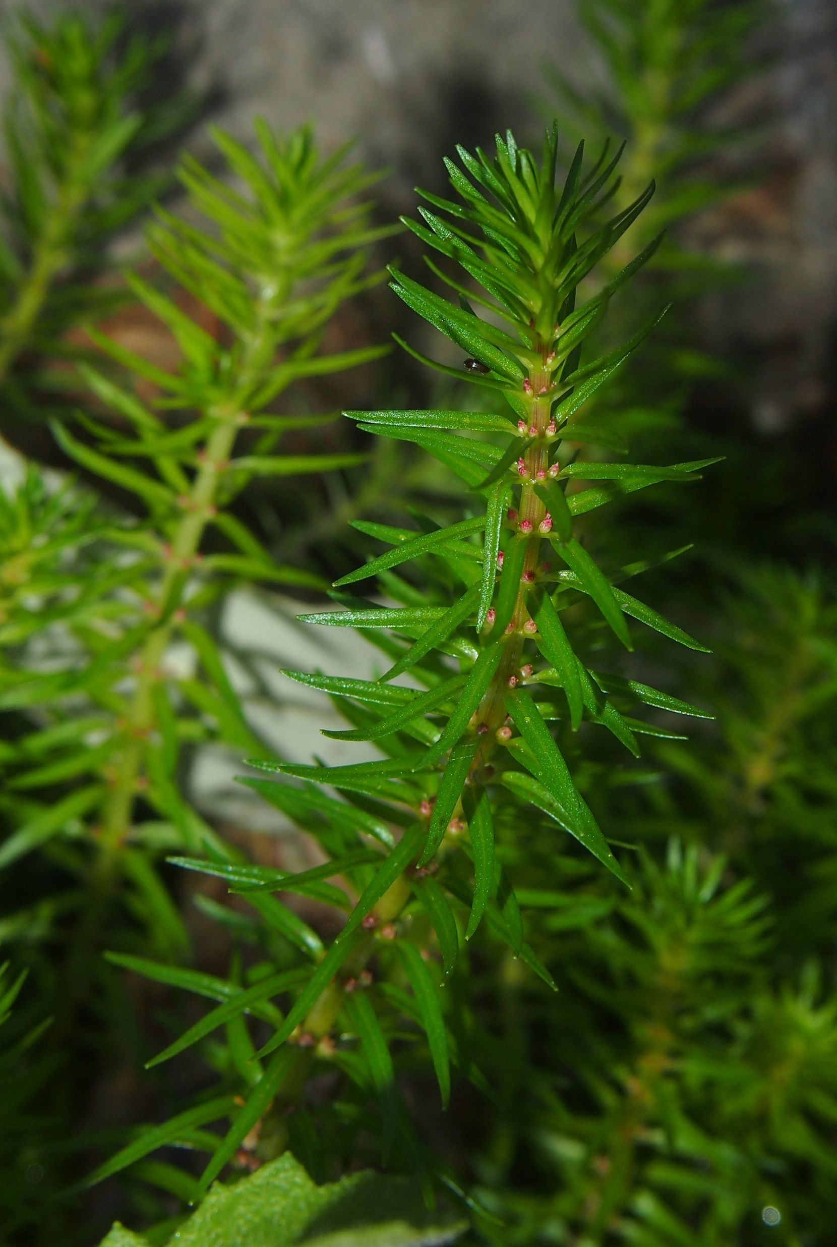 Rotala mexicana